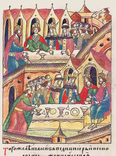 Wedding of sons of Yuri II of Vladimir - Mstislav with Maria and Vladimir with Christina